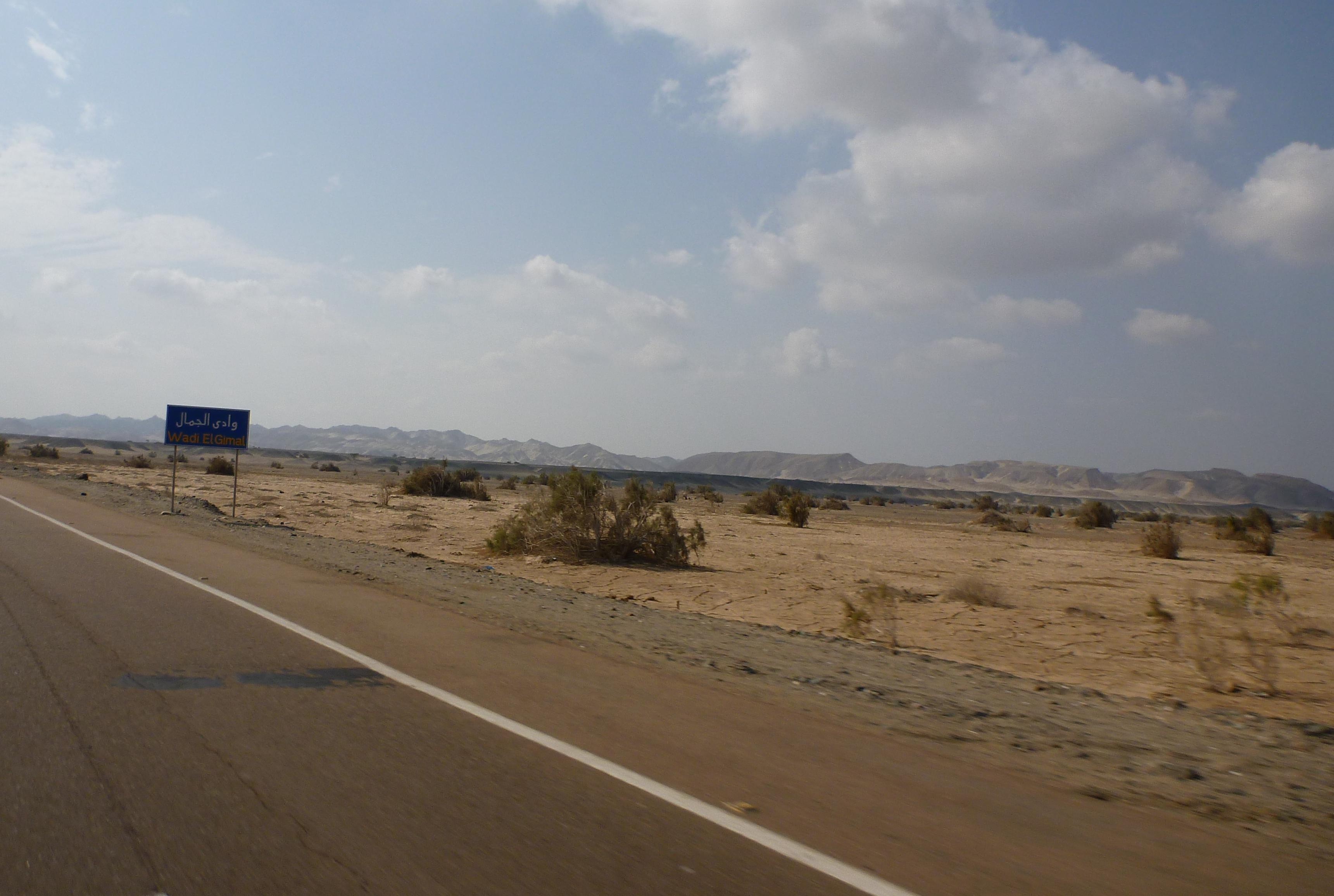 Northern Entrance to Wadi-al-Gamal-National Park at the coastal road at Red Sea